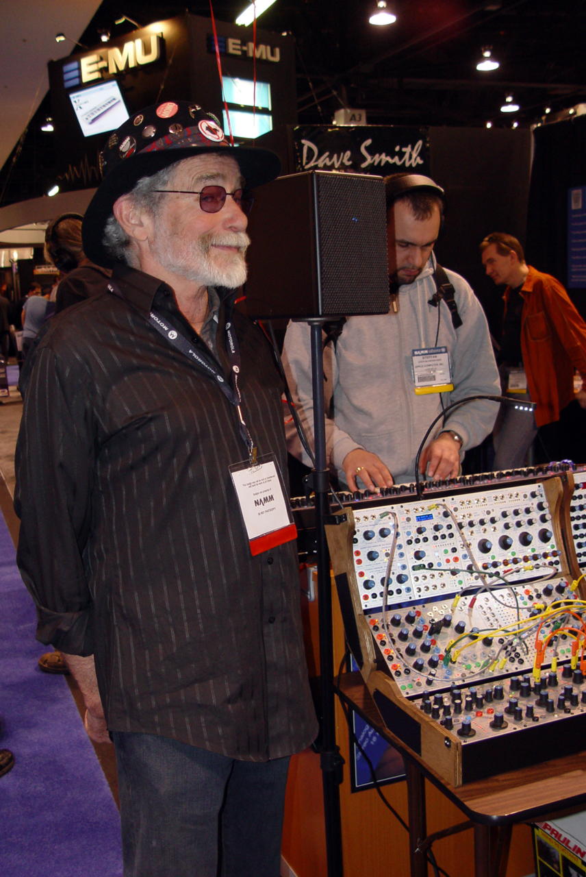 If that pose doesn't just SCREAM "wily", I don't know what would.